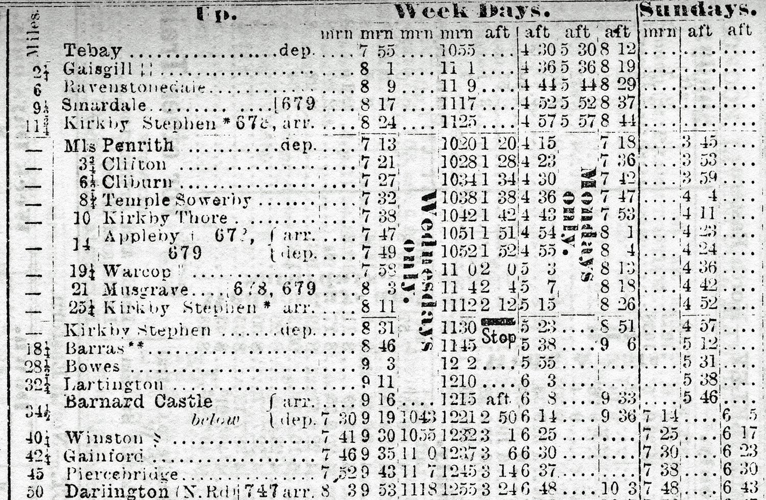 Scan of July 1922 North East Railway Timetable for the Eden Valley line